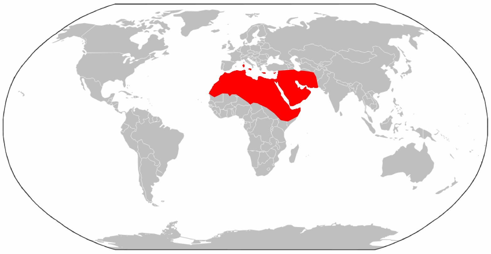 Chalcides ocellatus distribution map.